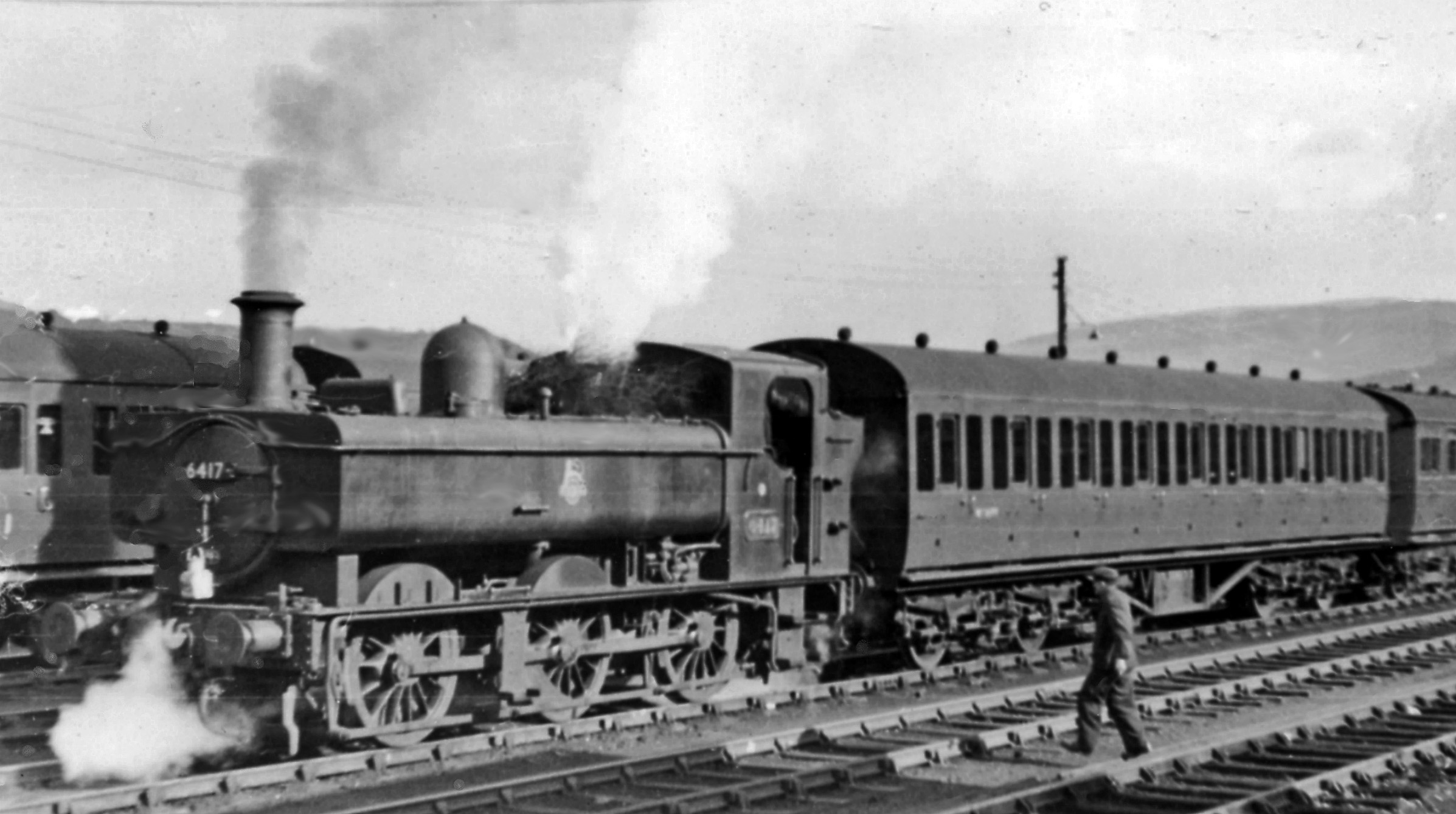 Abercynon branch train at Aberdare (Low Level). View southward, towards Abercynon etc.: ex-Taff Vale, later GWR terminus of the line from Abercynon. '6400' 0-6-0PT No. 6417 (built 12/34) was a light auto-fitted Pannier for light passenger work such as this, mainly in South Wales. The station is behind the camera: it was closed to passengers on 16/3/64, along with the service from Abercynon and in 6/64 also the Vale of Neath line through Aberdare (High Level) ceased, but freight continued, including through the connection with the VofN line as far as Hirwaun and Tower Colliery and in 8/73 a new line with a bridge over the River Cynon was built to facilitate this traffic, which ceased as recently 1/08. In 10/88, a passenger service was reinstated up the Cynon Valley from Aberynon and this now uses the rebuilt High Level station at Aberdare.